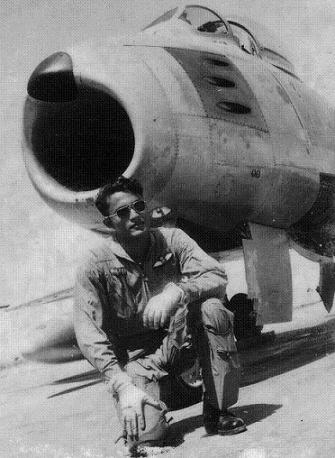 Pilot officer Waleed Ehsanul Karim in front of a Pakistan Air Force North American F-86F Sabre.